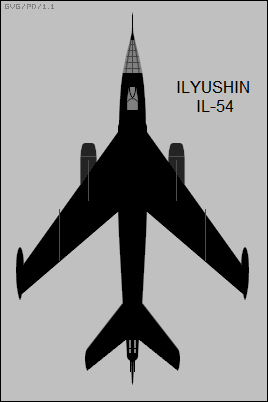 side-view silhouette of the Ilyushin Il-54